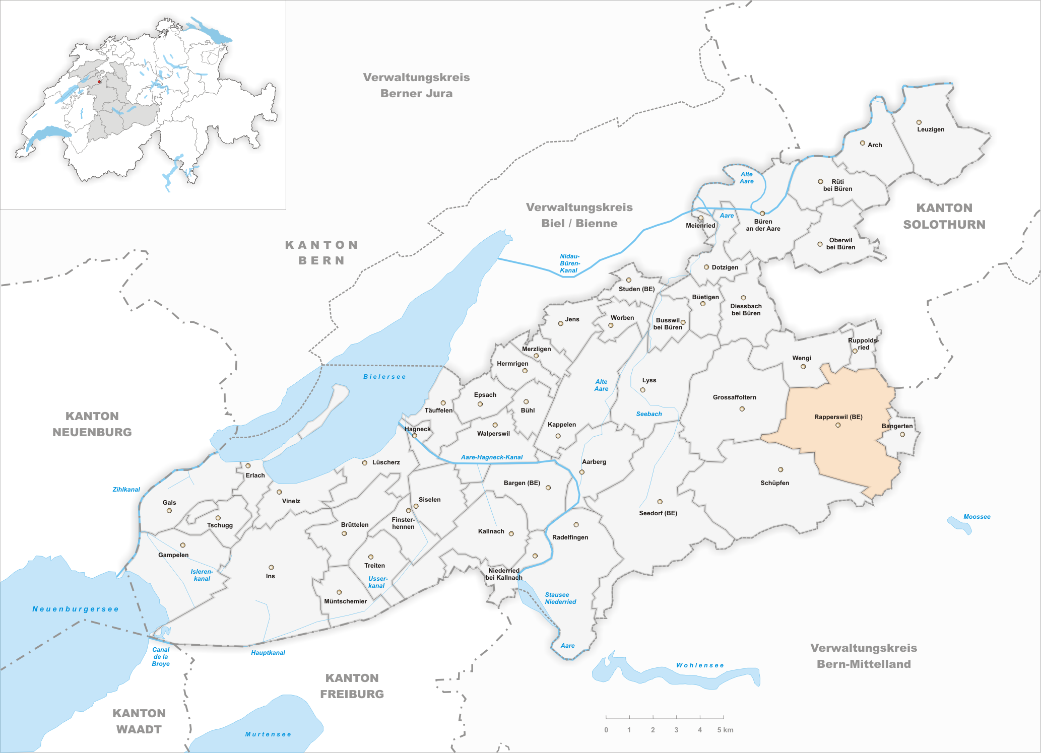 Municipality Rapperswil